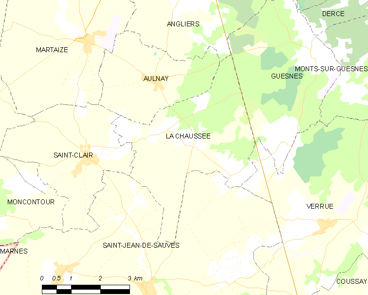 Map of French municipality La Chaussée